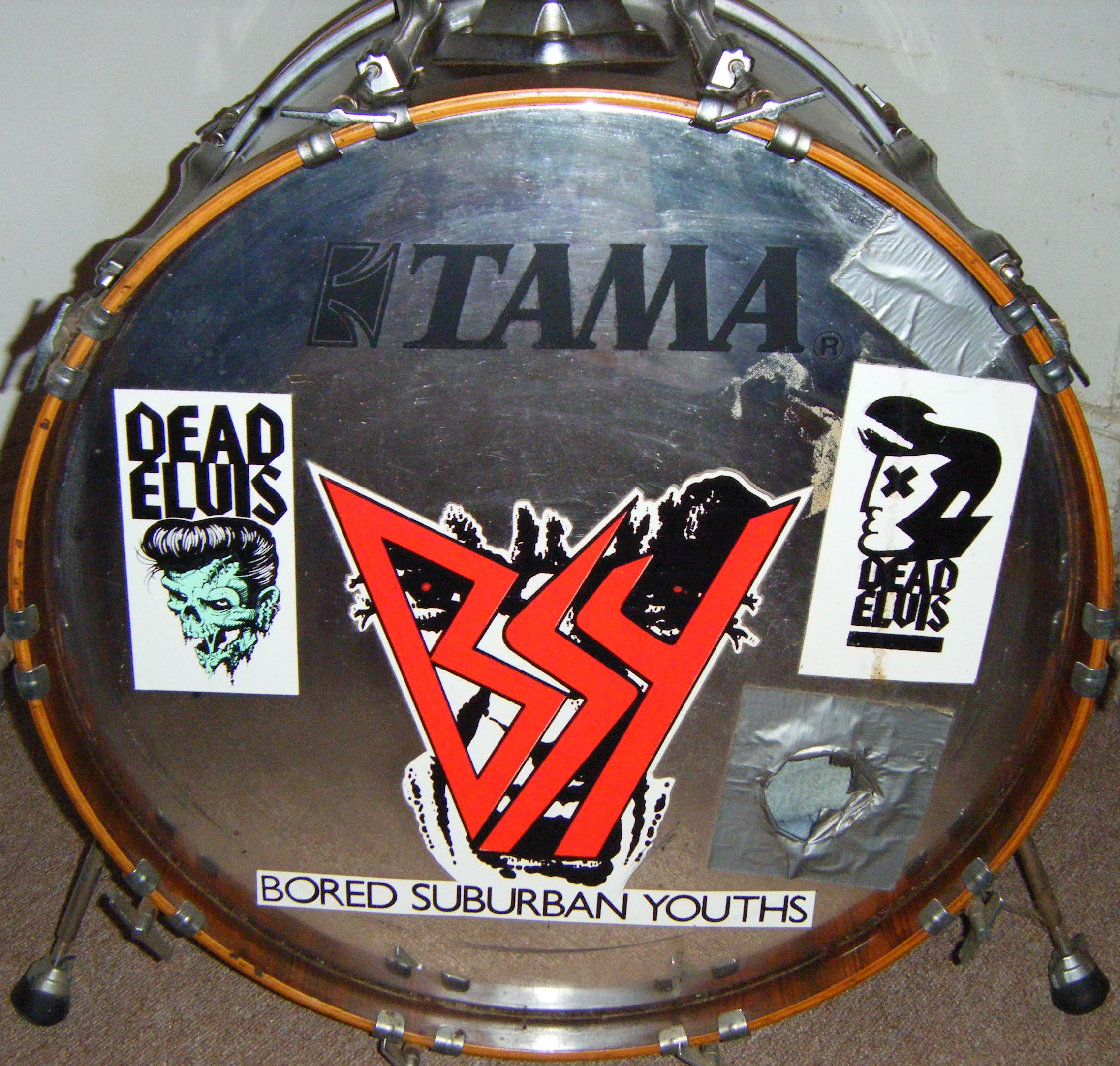 BSY Logo on Bass Drum Head